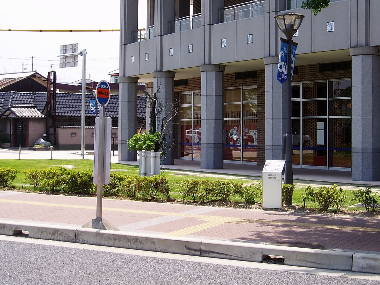 JR Tokai Bus Seto Kinenbashi Bus Stop